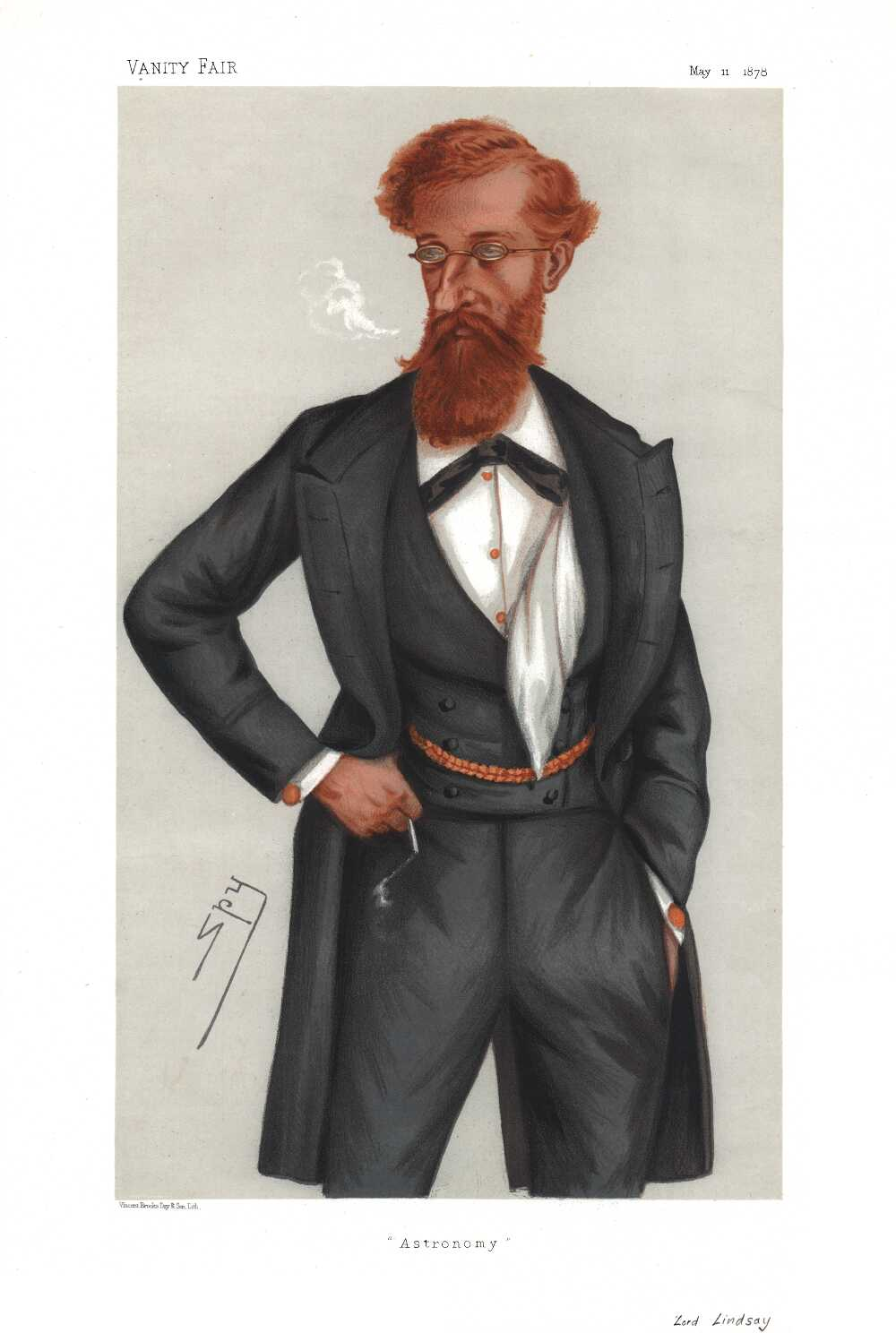 Statesmen No. 263: Caricature of James, Lord Lindsay MP (1847-1913), later 26th Earl of Crawford. Caption read "Astronomy".